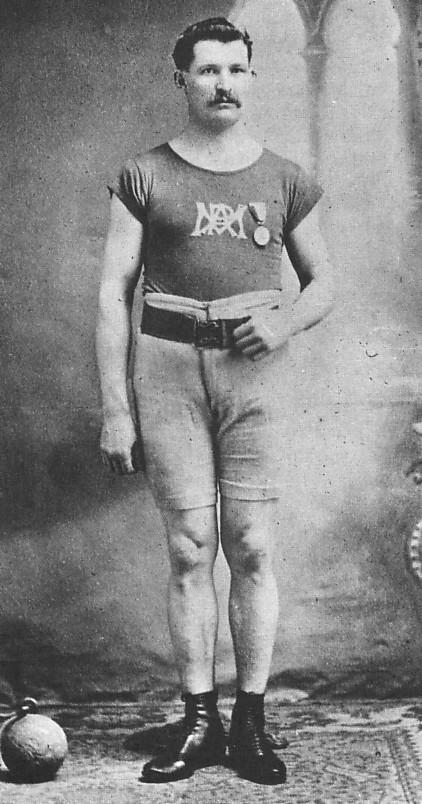 Étienne Desmarteau